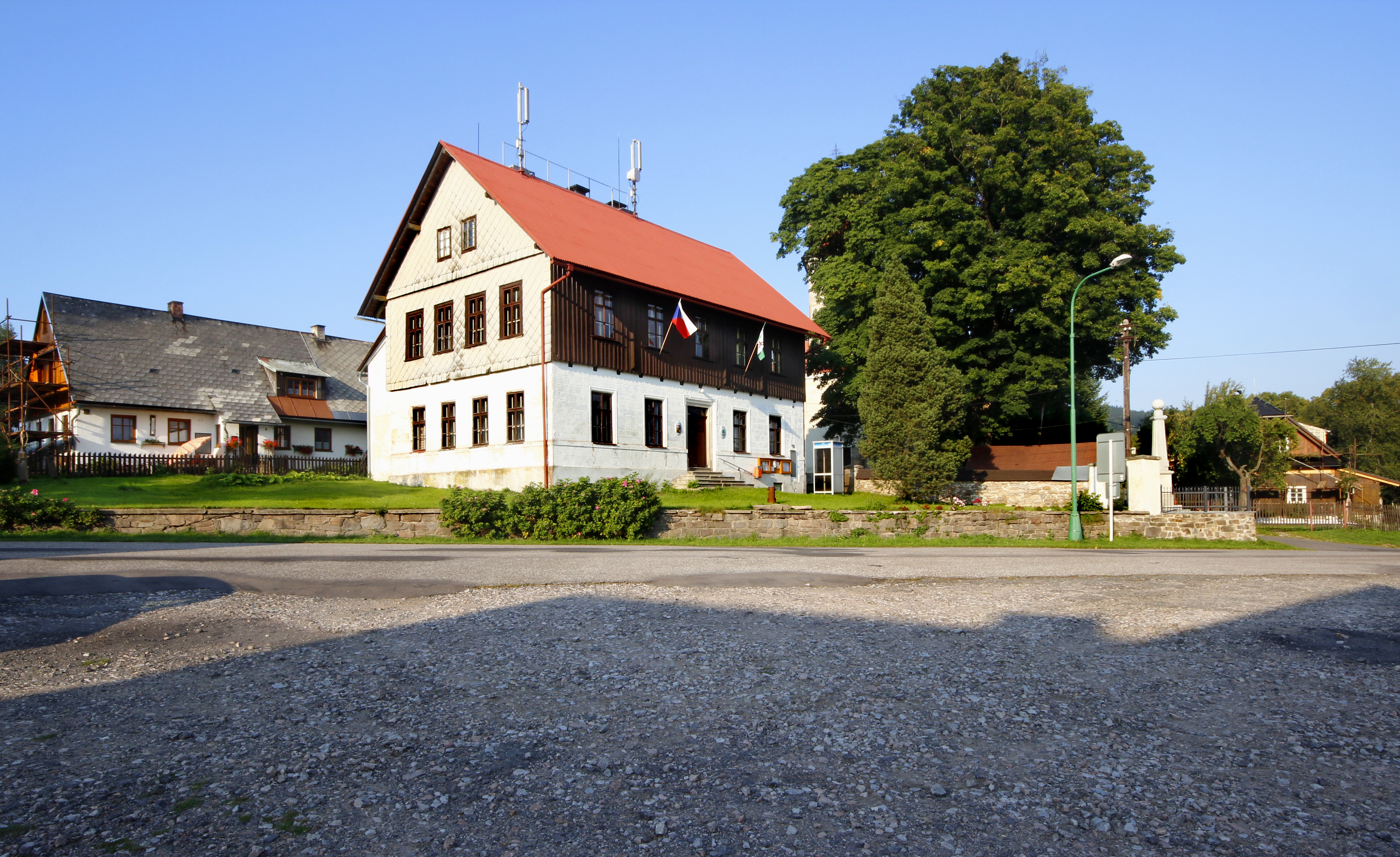 Upper square in Říčky v Orlických horách, Czech Republic